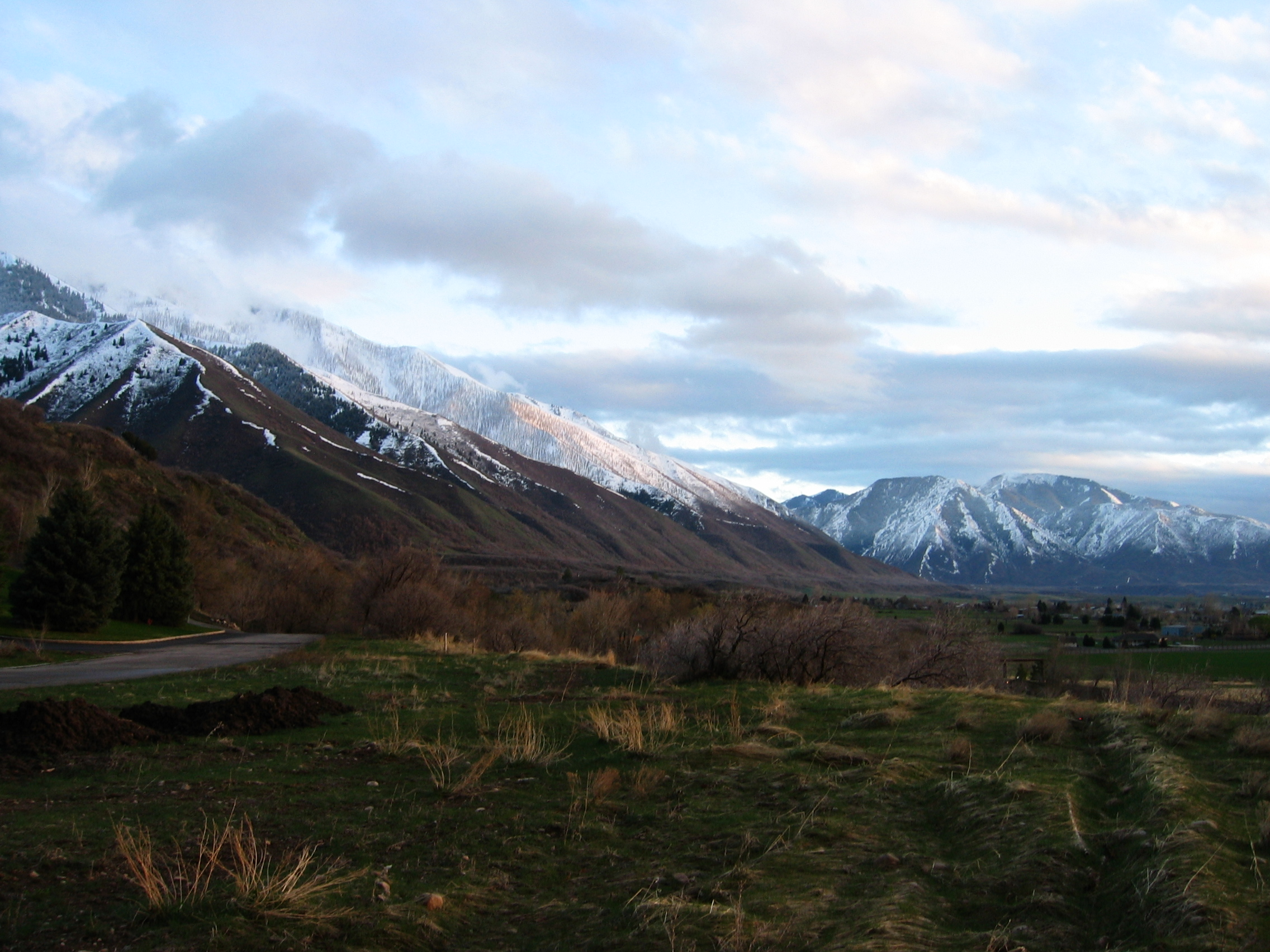 Provo section of the Wasatch Range.